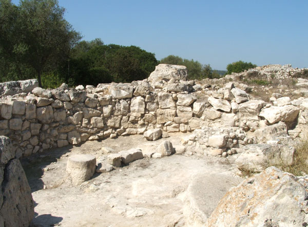 Talayot Son Fornes, Mallorca